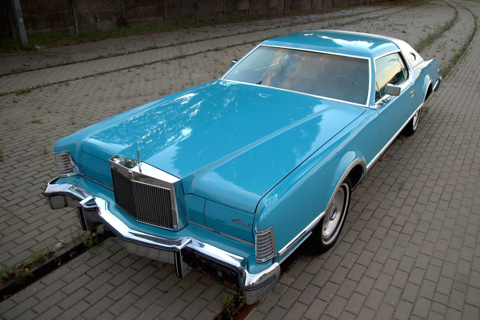 1976 Lincoln Continental Mark IV Givenchy designer series